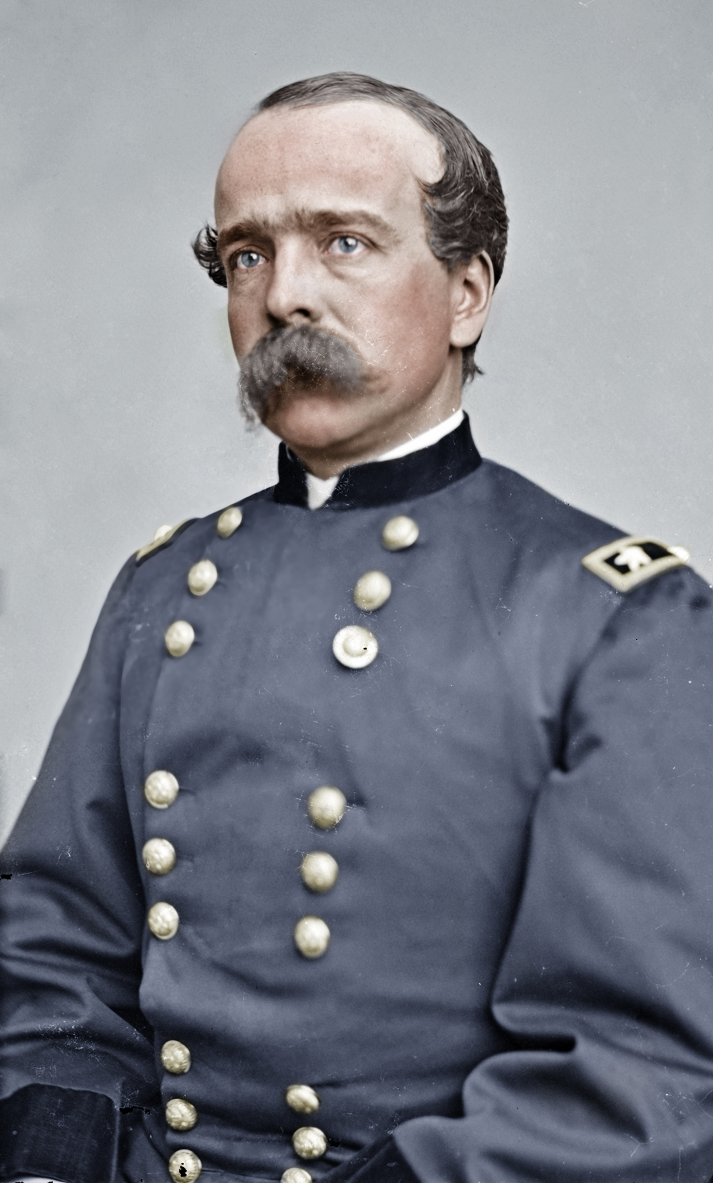 Civil War Union General Daniel Butterfield